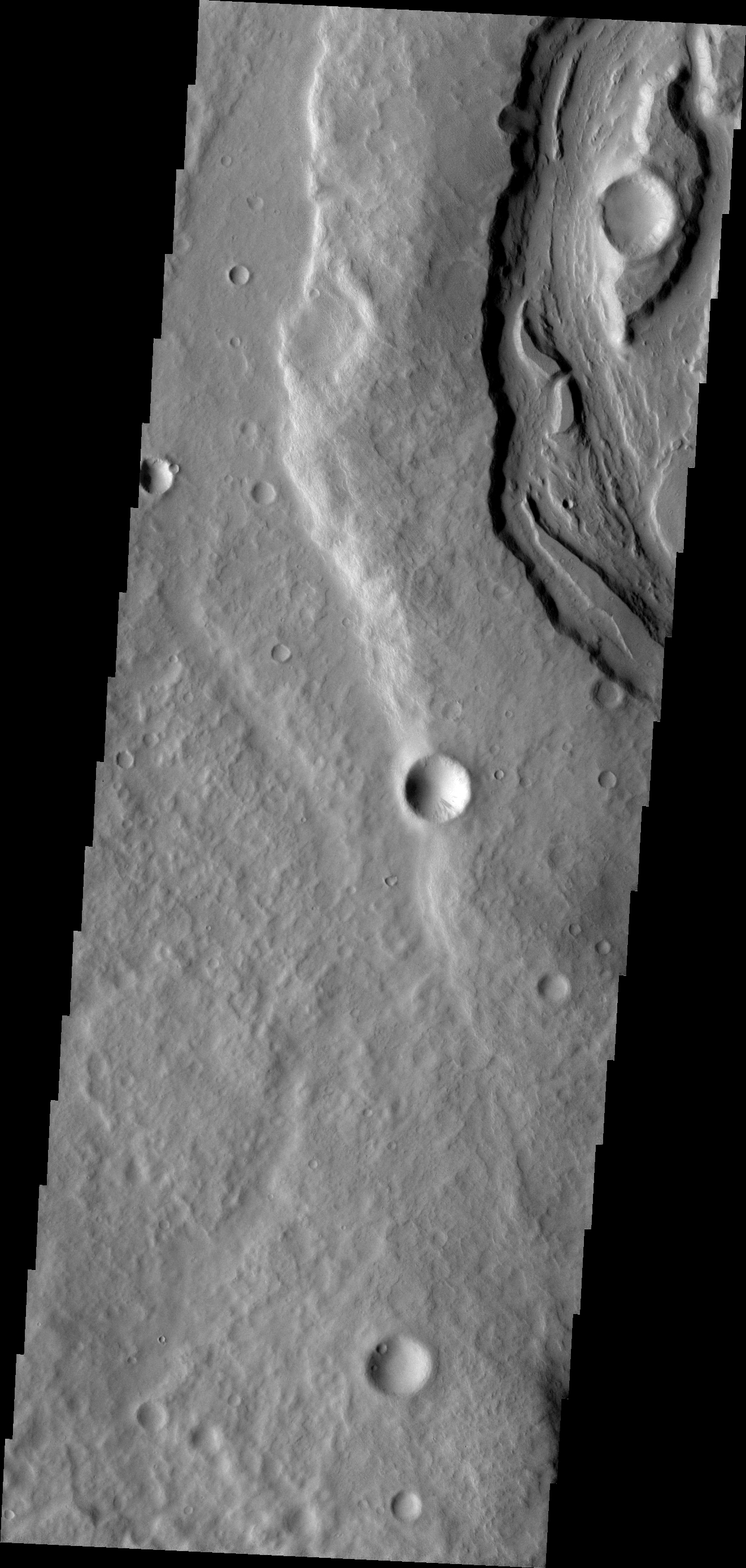 Padus Vallis, as seen by themis. Location is 8.3 S and 208.1 E. Image is 18 km wide.